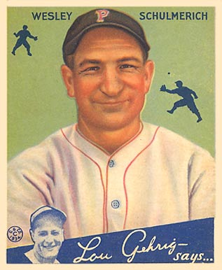 1934 Goudey baseball card of Wesley "Wes" Schulmerich of the Philadelphia Philles #54. PD-not-renewed.